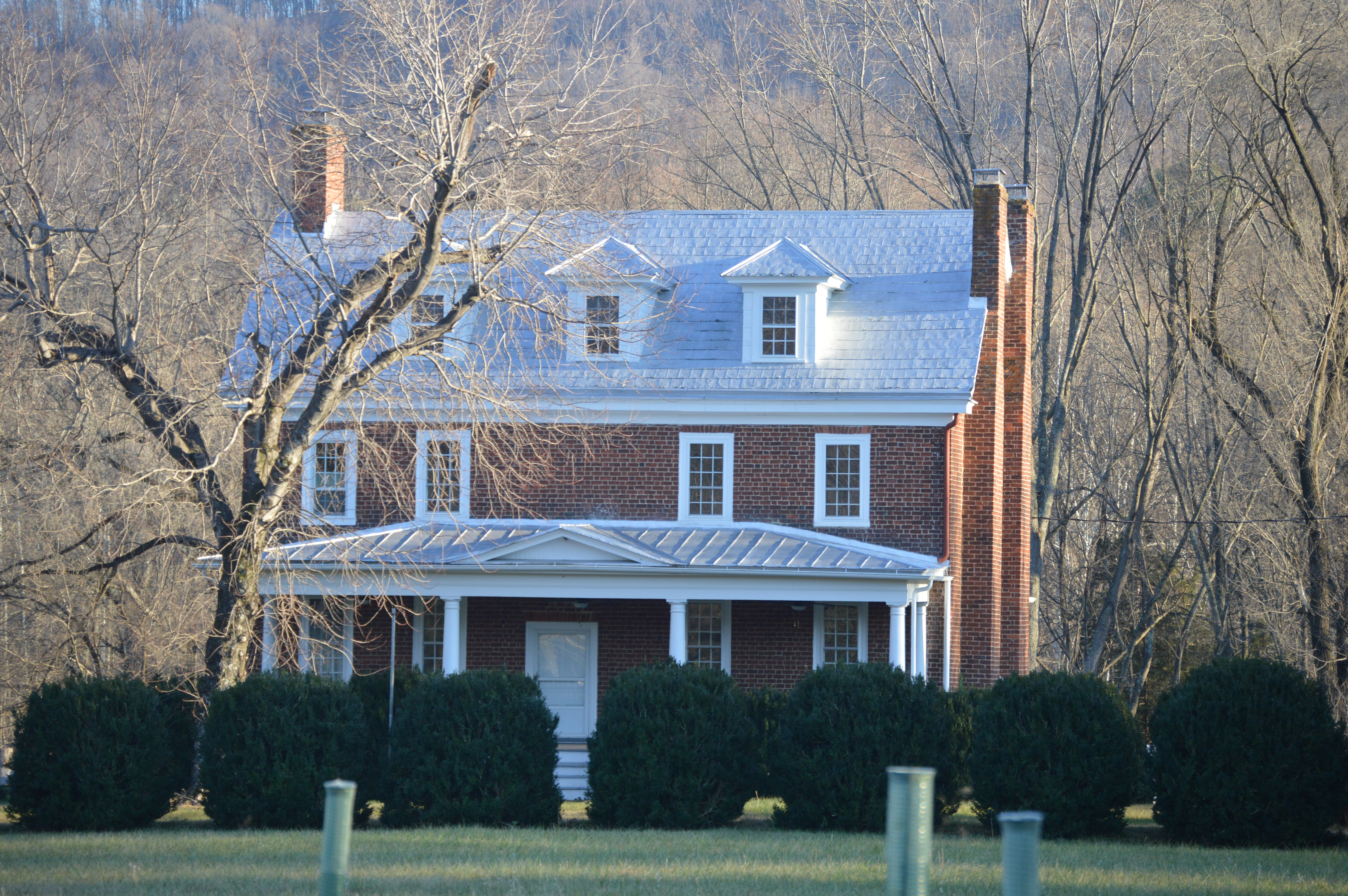 Front of the Major James Woods House, located at 3042 State Route 151 at Wintergreen in Nelson County, Virginia, United States. Built in 1795, it is listed on the National Register of Historic Places, and it is part of a Register-listed historic district, the South Rockfish Valley Rural Historic District.